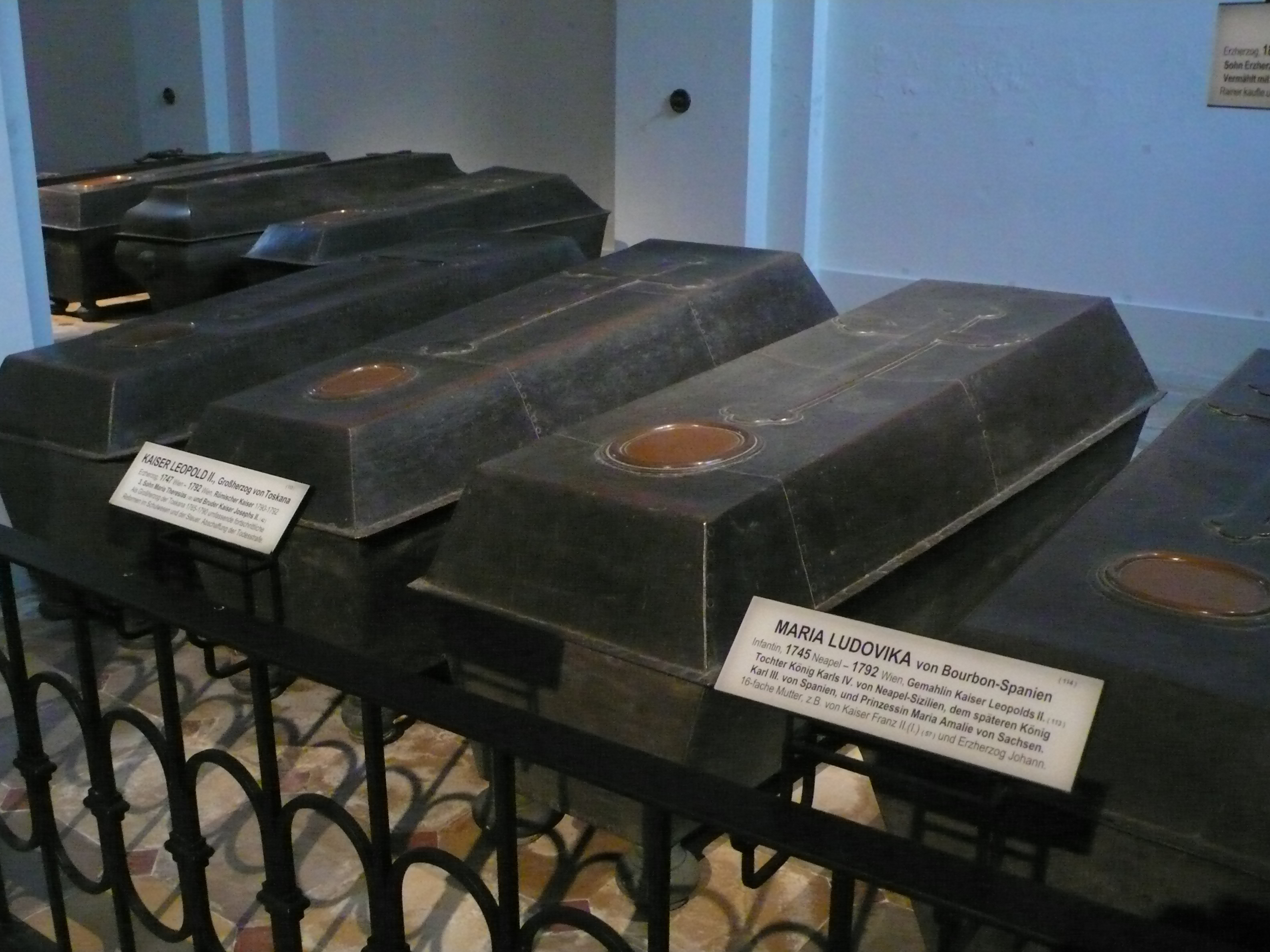 Austria, Vienna, Capuchin Church, Imperial Crypt